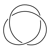 This picture shows the regular presentation of trefoil knot. The knot is a basic example of nontrivial knot in knot theory (mathematics). The regular representation, commonly used in the theory to indicate knots, represents projection onto 2-dimensional plane of the knot. At each intersection, the below string is split a bit to indicate how the strings are arranged at that point.